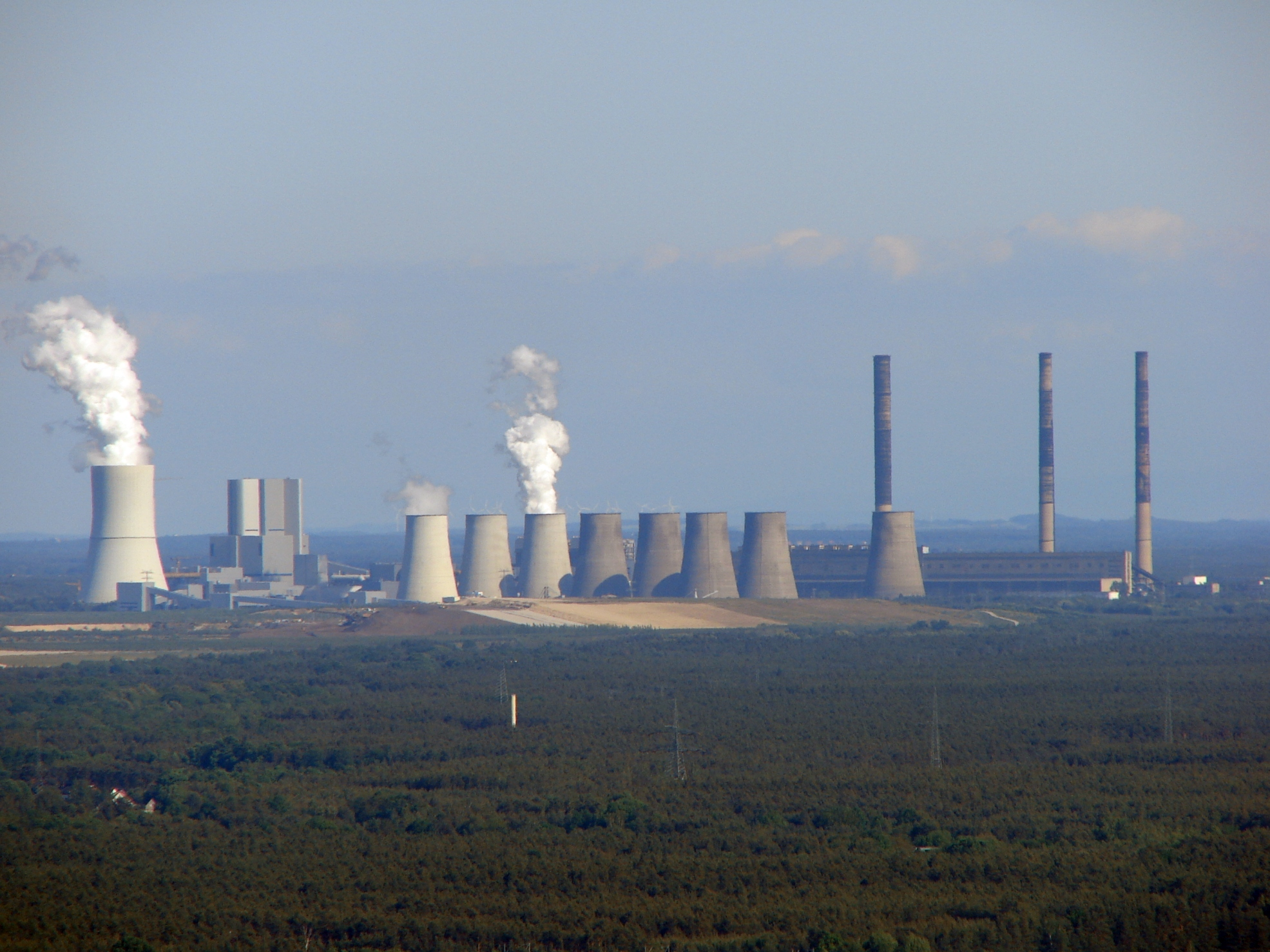 Boxberg power station as seen from Schwarze Pumpe power station